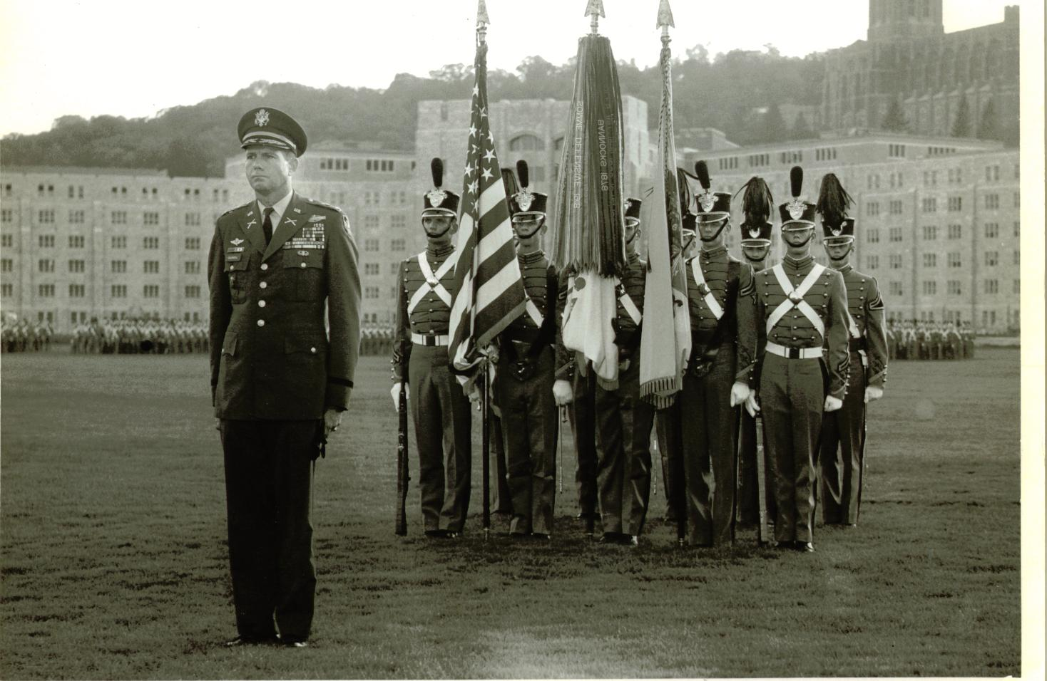 COL William B Caldwell III commanded Second Regiment of the Corps of Cadets at West Point. Approx 1968